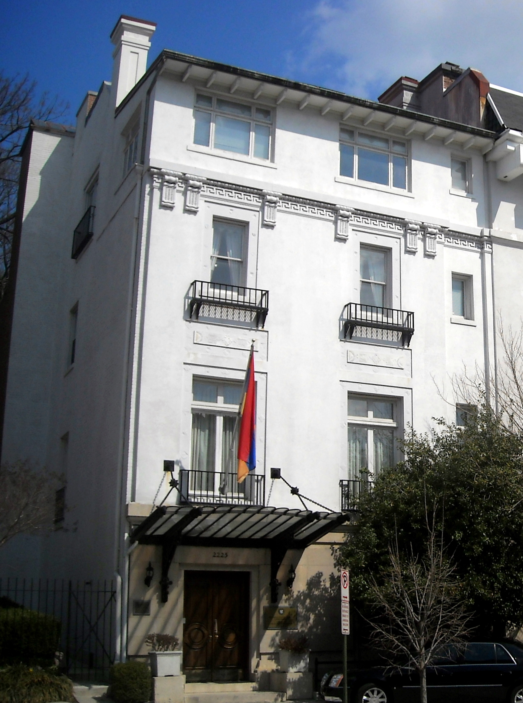 The Embassy of Armenia located at 2225 R Street, NW in the Sheridan-Kalorama neighborhood of Washington The building is a contributing property to the Sheridan-Kalorama Historic District. Its 2009 property value is $3,675,890.